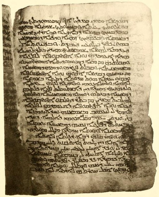 Syriac Sinaiticus - fol. 129r (=62v) - John 5.46-6.11